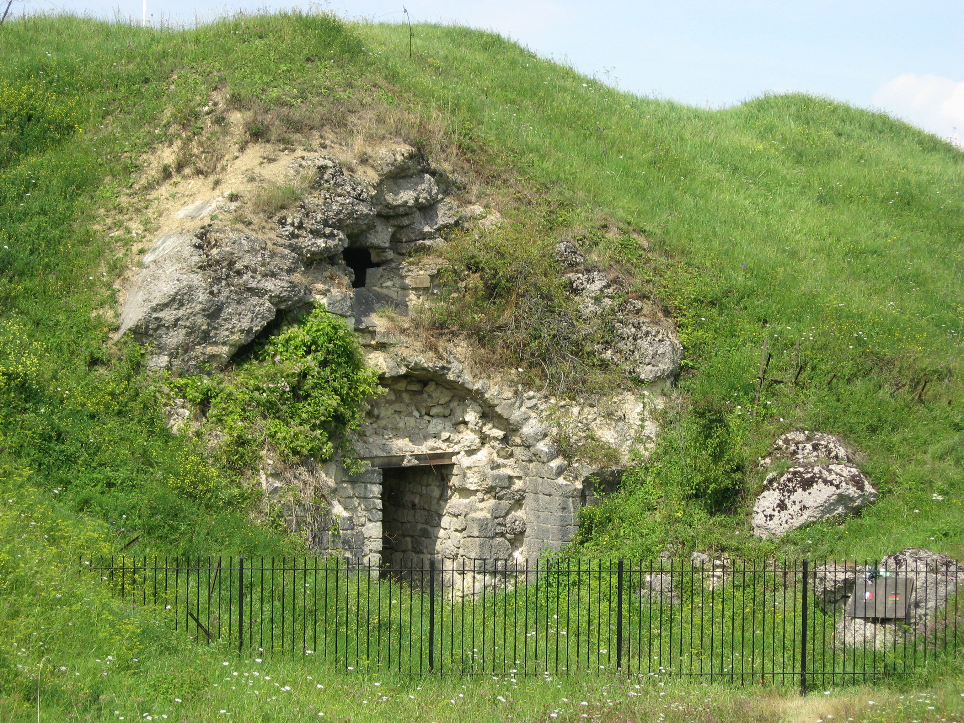 Exit (or entry) of Fort Douaumont, Verdun